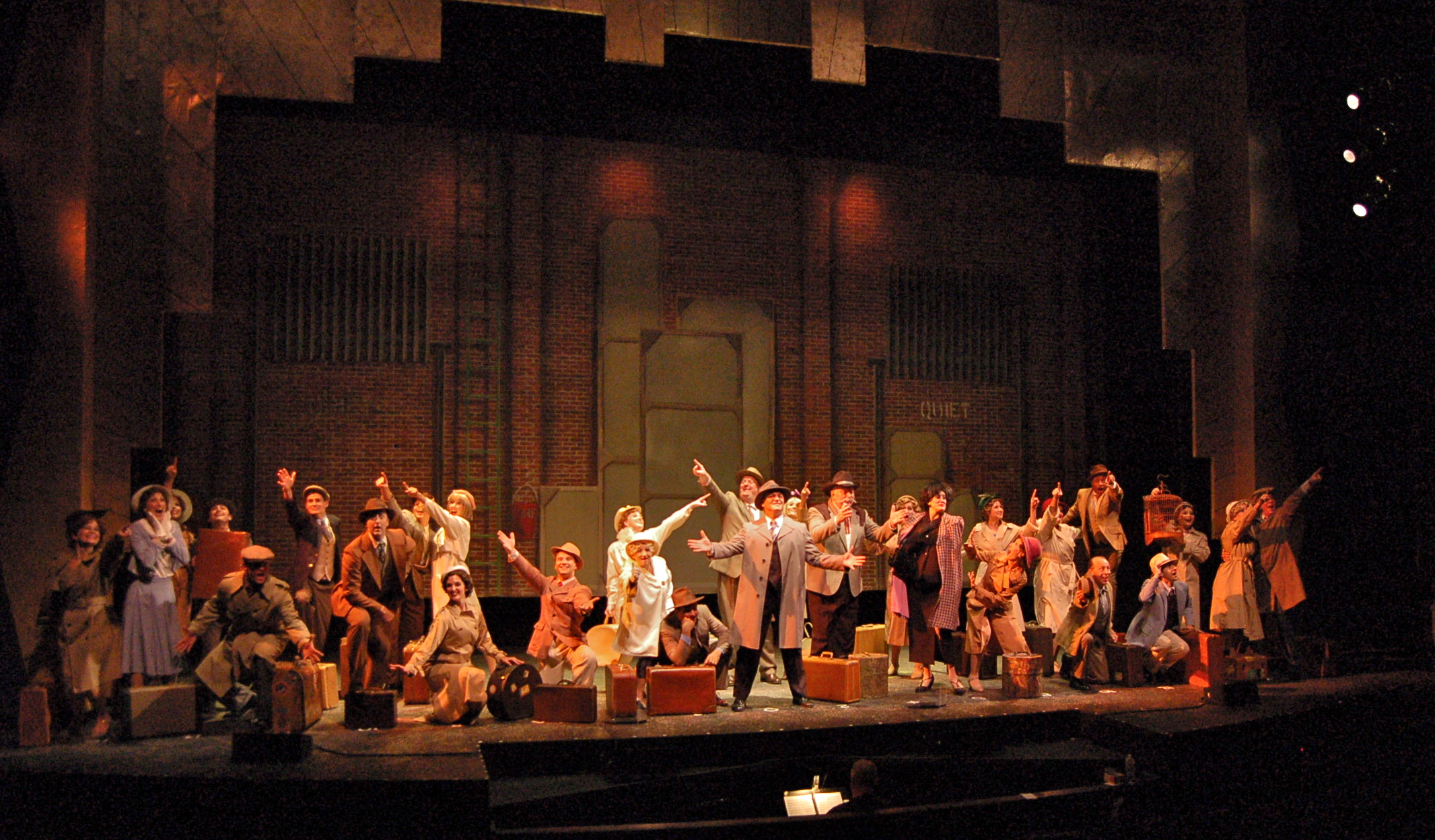 The Naples Players Mainstage Performance Space, Blackburn Hall, taken during "42nd Street" July, 2011.